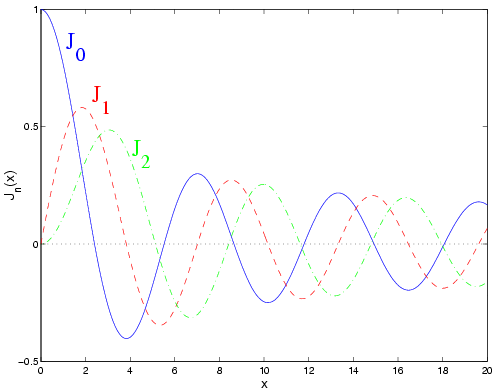 Plot of the Bessel functions of the first kind, , of orders .